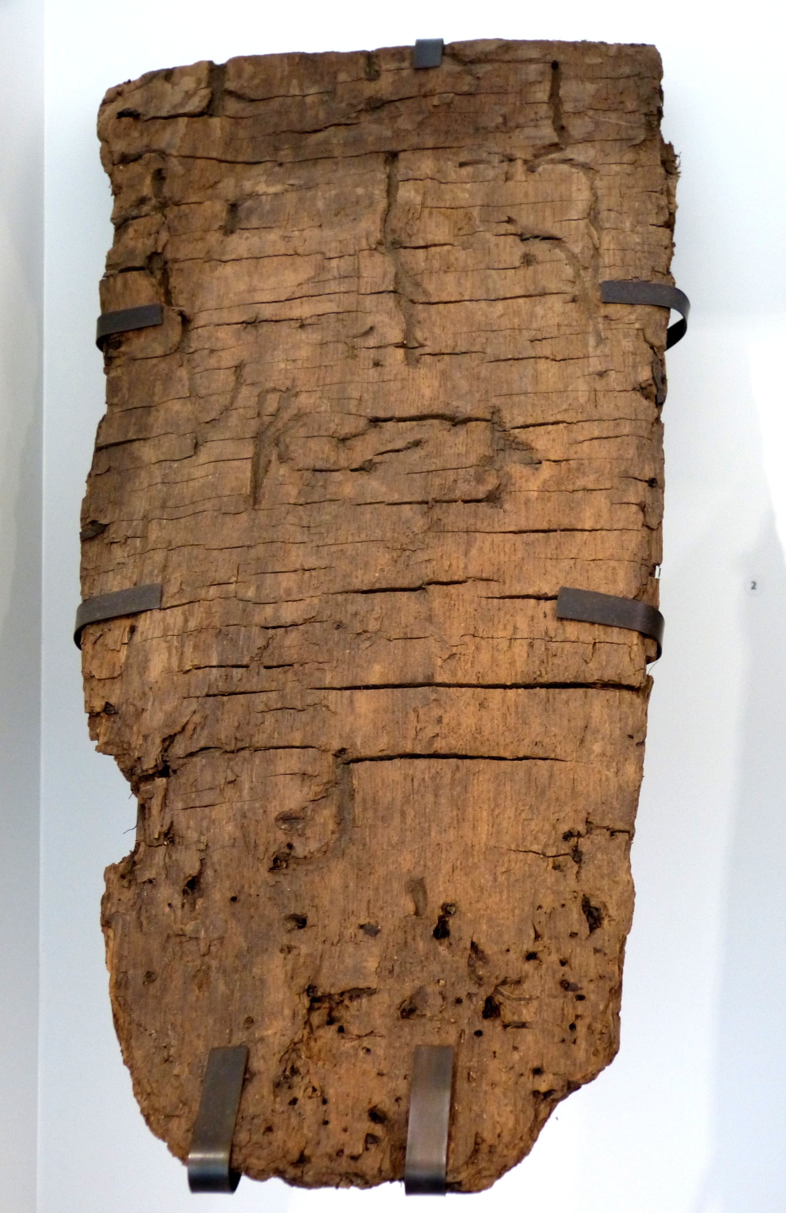 Weiltingen ( Bavaria ). Archaeological park Ruffenhofen: Limeseum - Fir shingle ( 1st century AD ) from the vicus of Dambach.